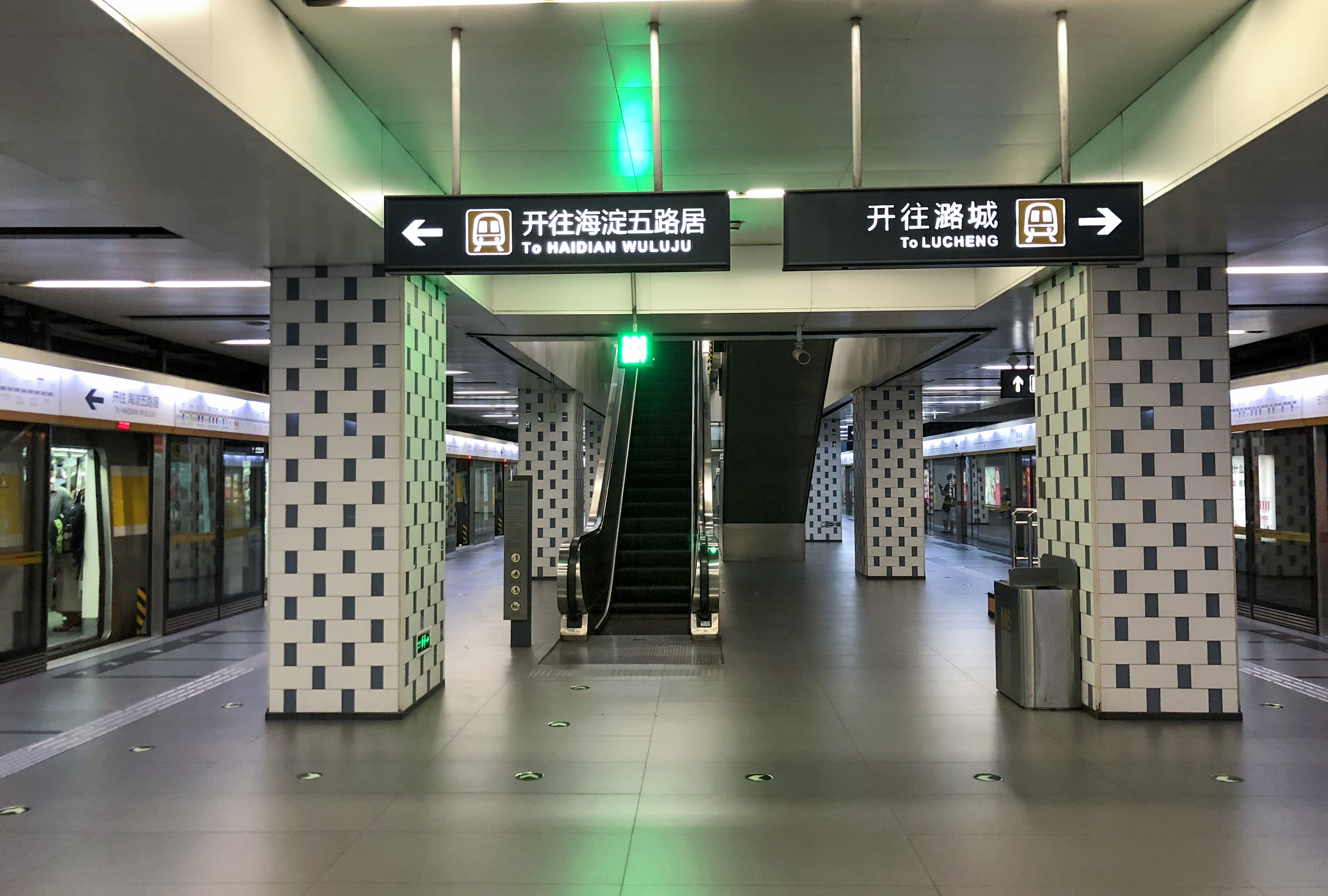 But no rapids currently.